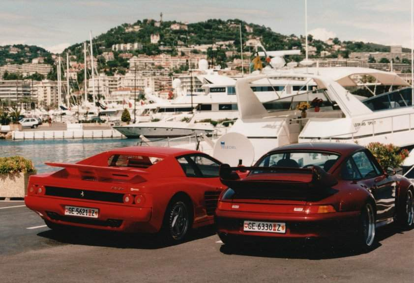 Red Ferrari Testarossa/Ferrari F512 M and Porsche 911 GT2 (993) with Swiss number plates at a quay of a marina of Cannes - Cote d'Azur (France)